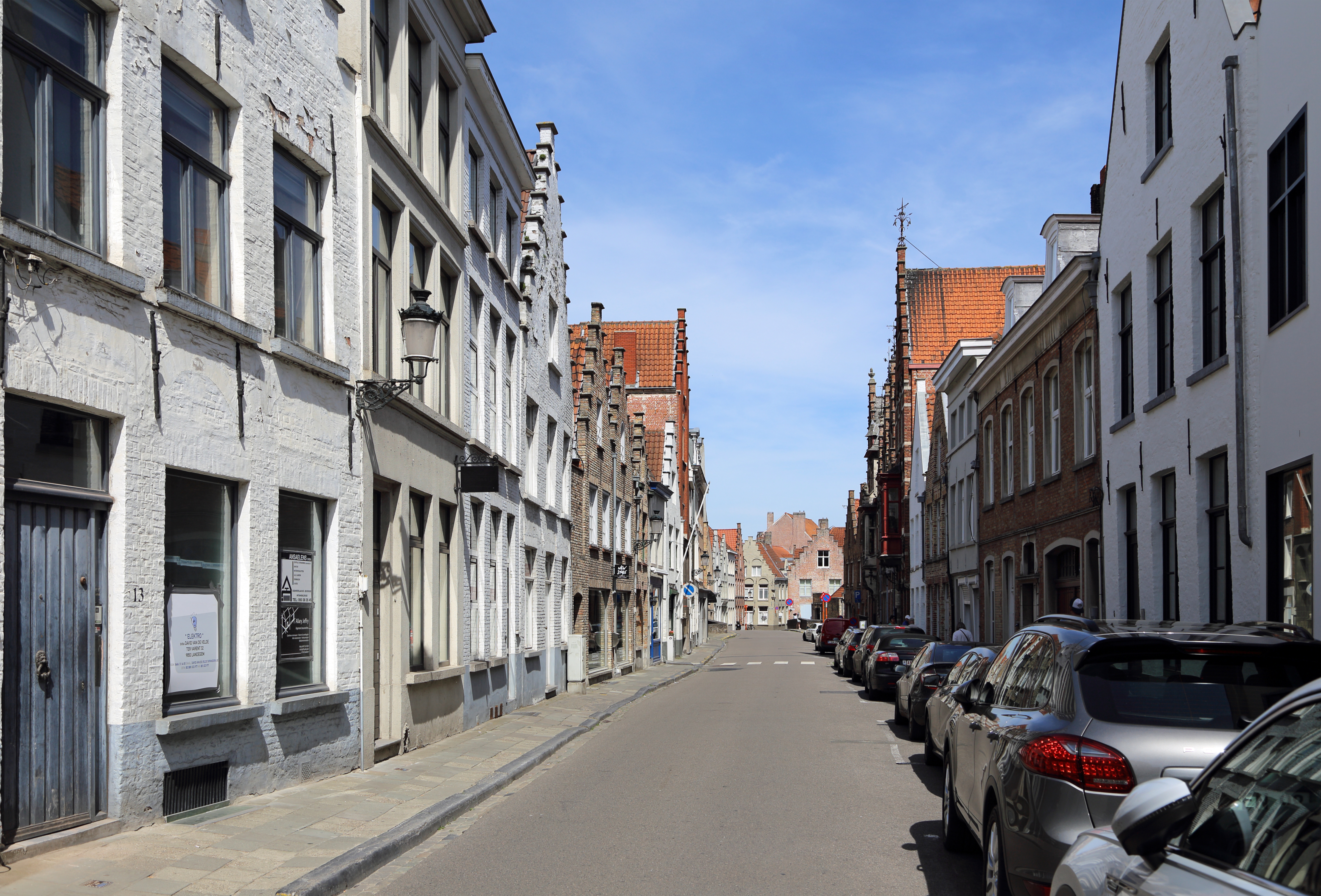 Bruges (Belgium): Wulfhagestraat Аҧсшәа: Bruges (Belgique) : Wulfhagestraat